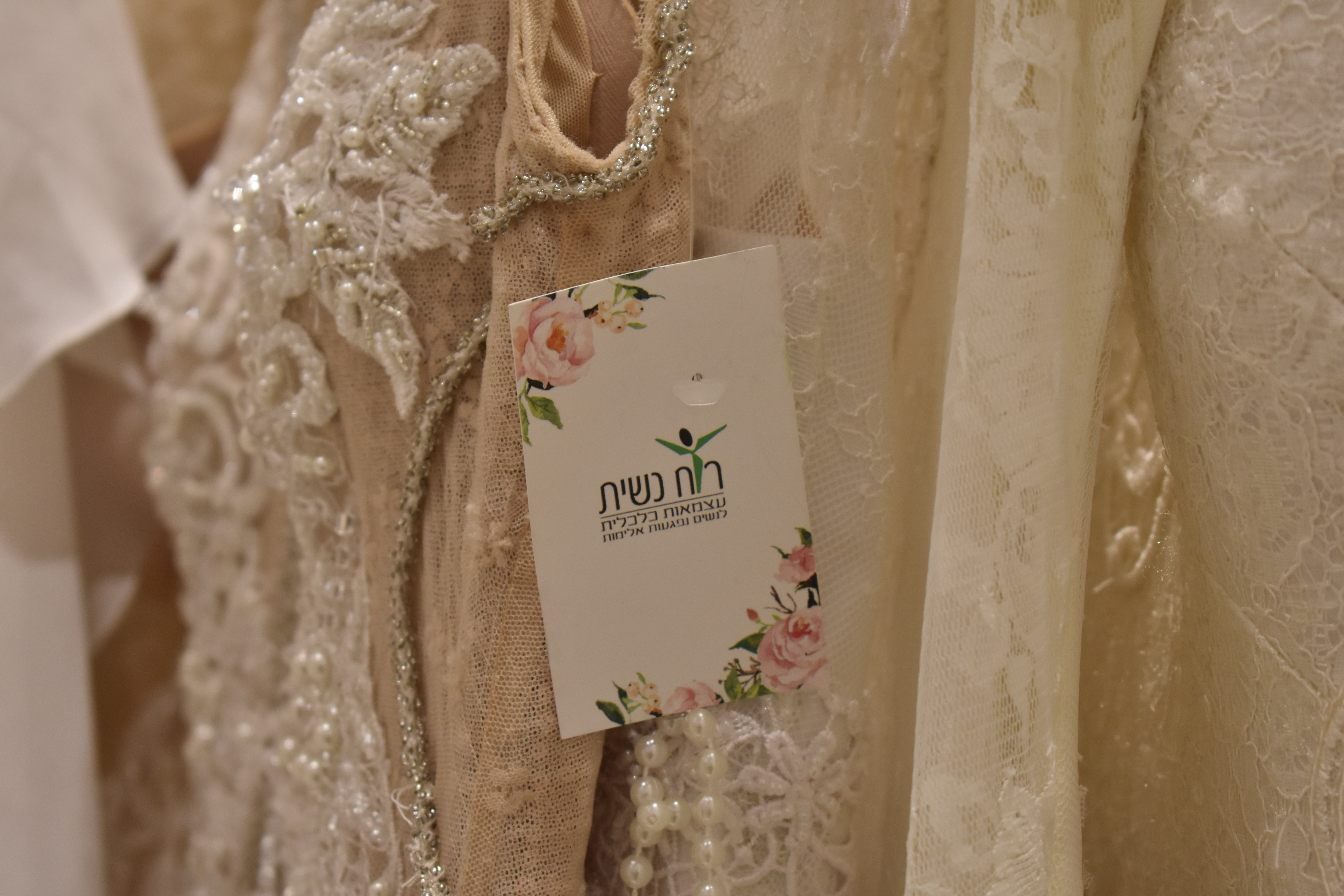 ruach-nashit